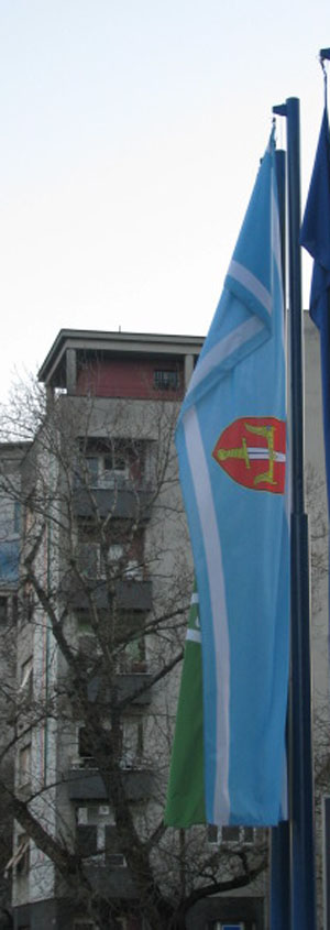 Flag of Šibenik-Knin County, Croatia